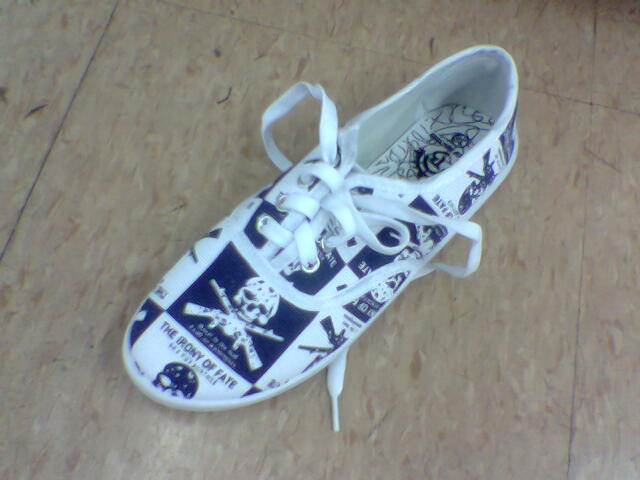 A larger plimsoll shoe as seen in a department store.